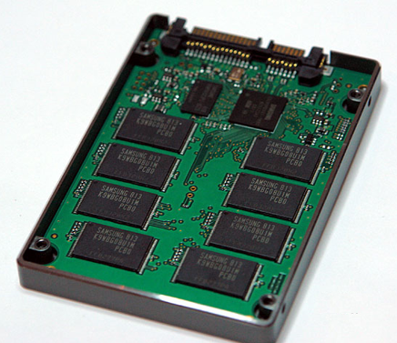 Qarqet komunikuese